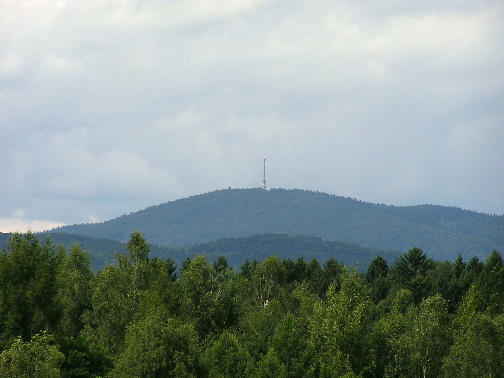 The “Brotjacklriegel” (1016 m) in the Bavarian Forest